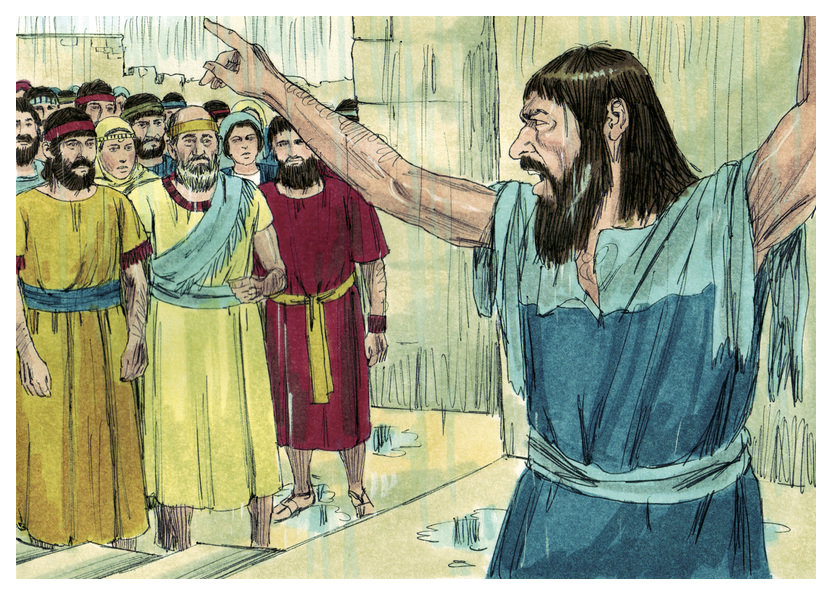 Biblical illustration of Book of Ezra Chapter 10